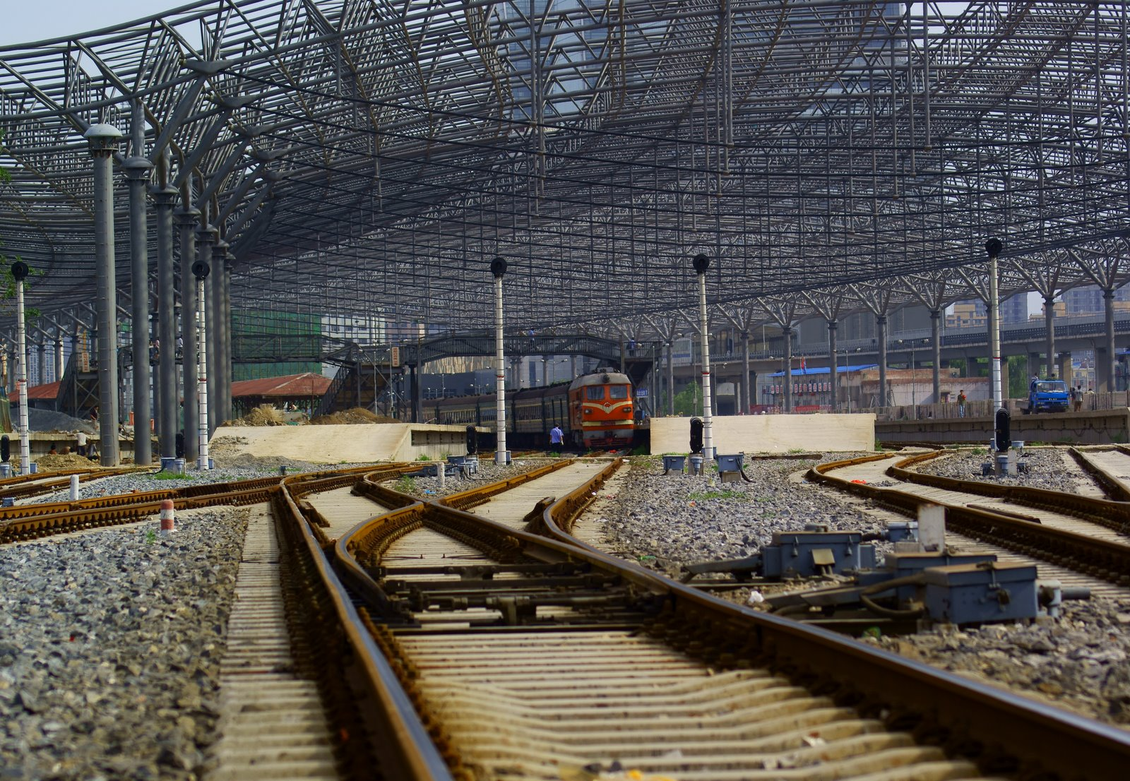 Beijing North Railway Station